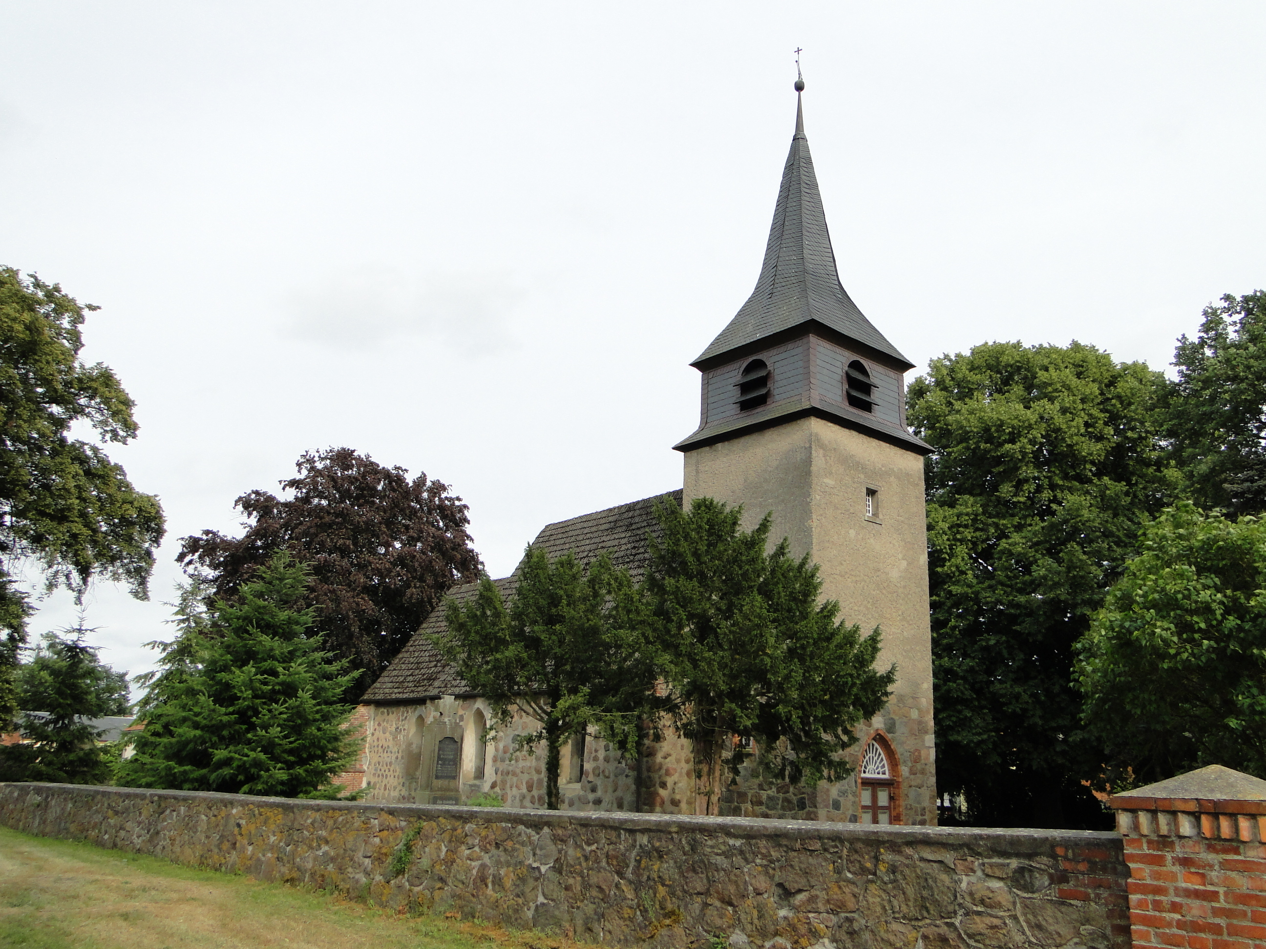 Church in Reckenzin, disctrict Prignitz, Brandenburg, Germany